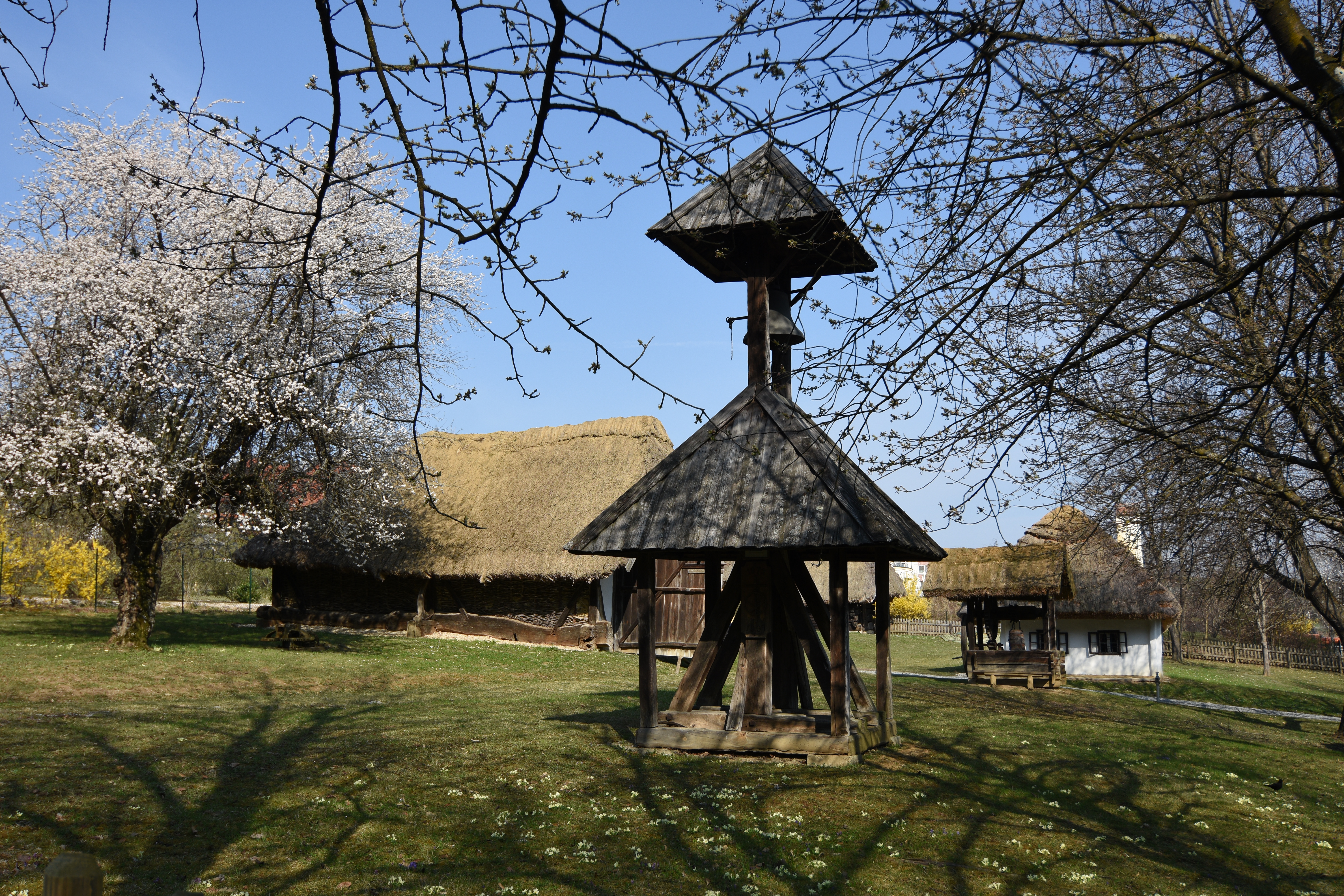 Freilichtmuseum Bad Tatzmannsdorf